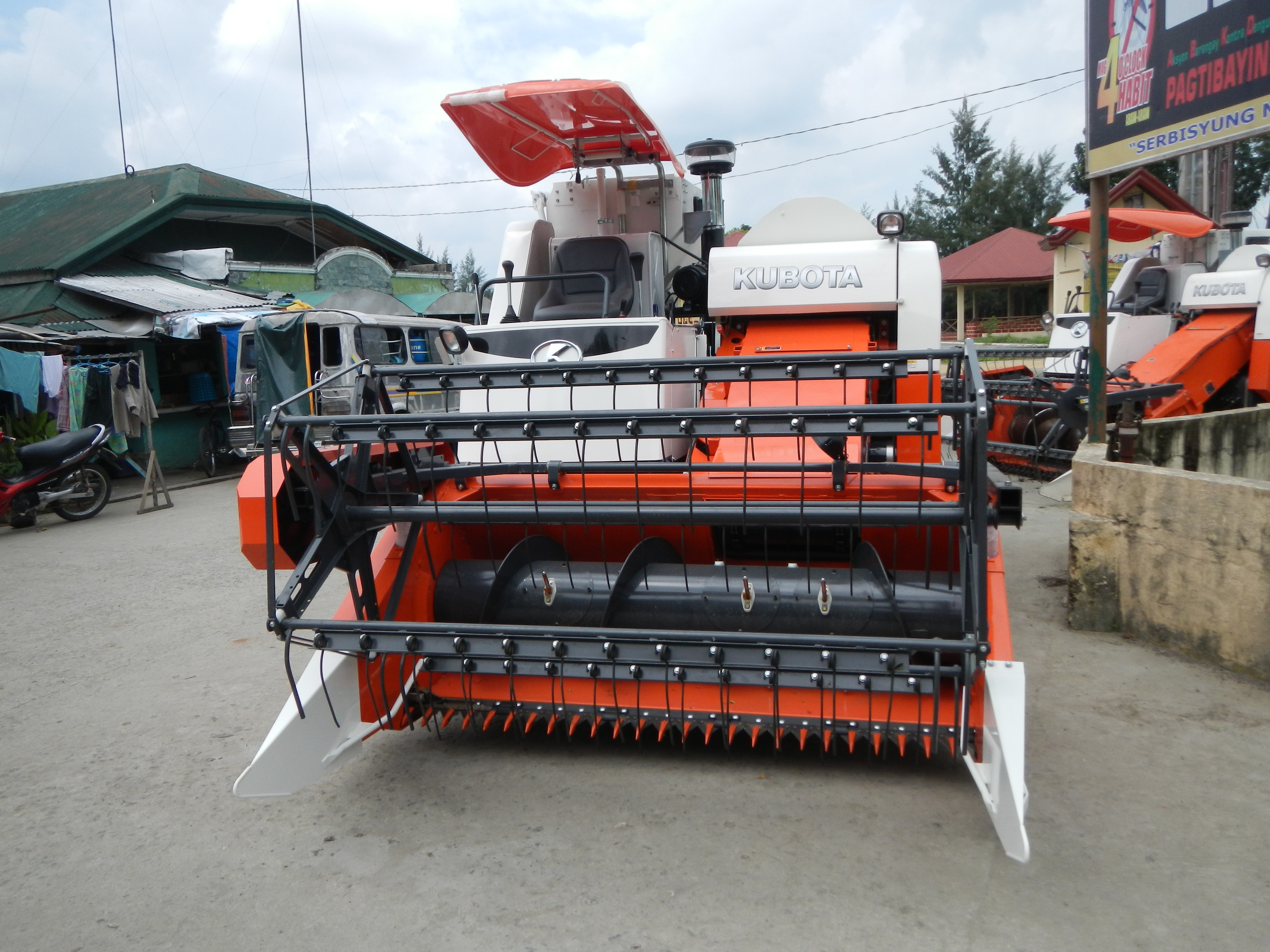 Kubota DC-60, Kubota rice harvester Kubota in FACOMA estate at Candaba, Pampanga Barangay Bahay Pare, Candaba, Pampanga.